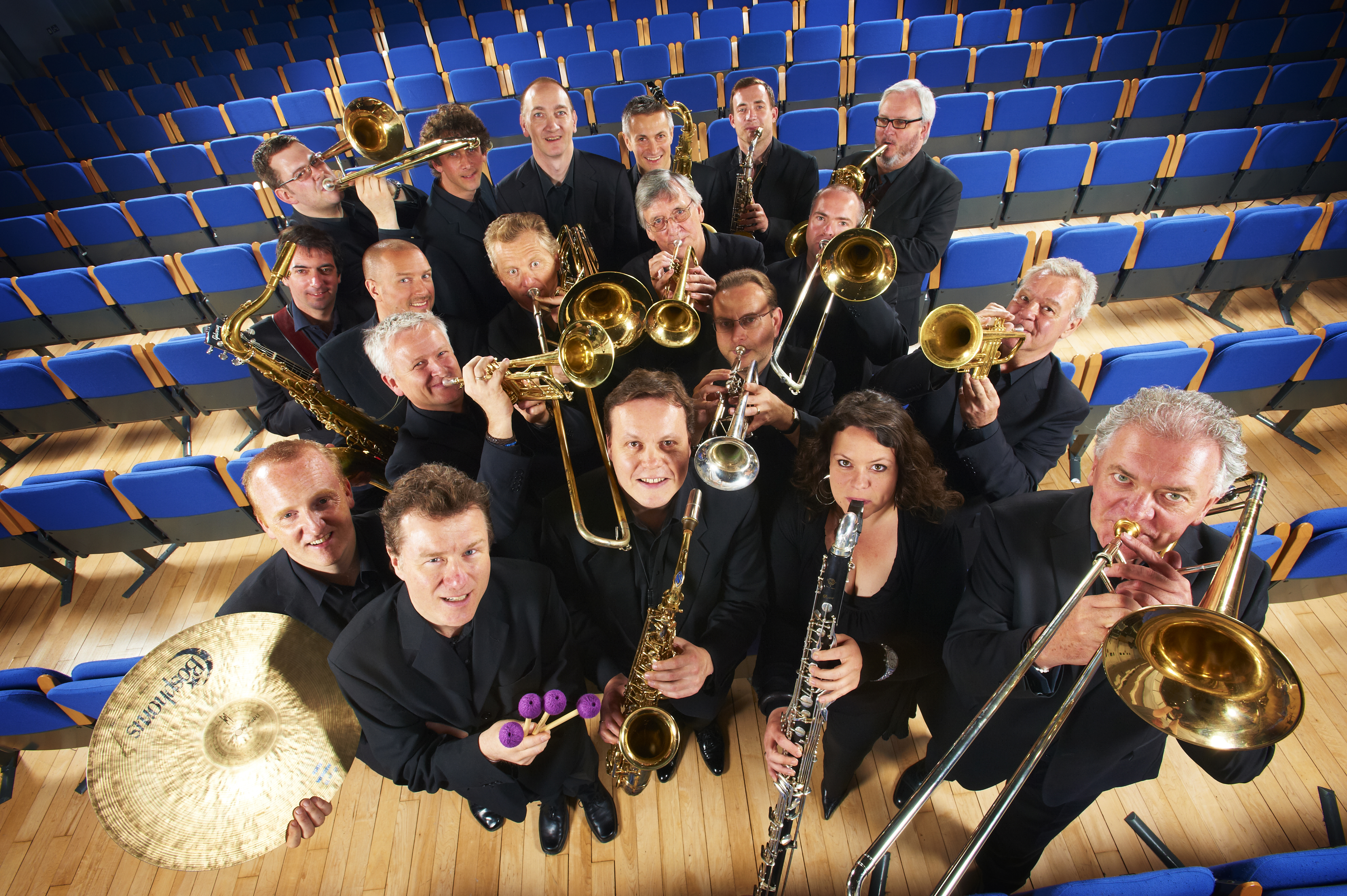 Photo of BBC Big Band (musicians)taken at Town Hall Birmingham on Friday 25 May 2012 - BBC_Big_Band